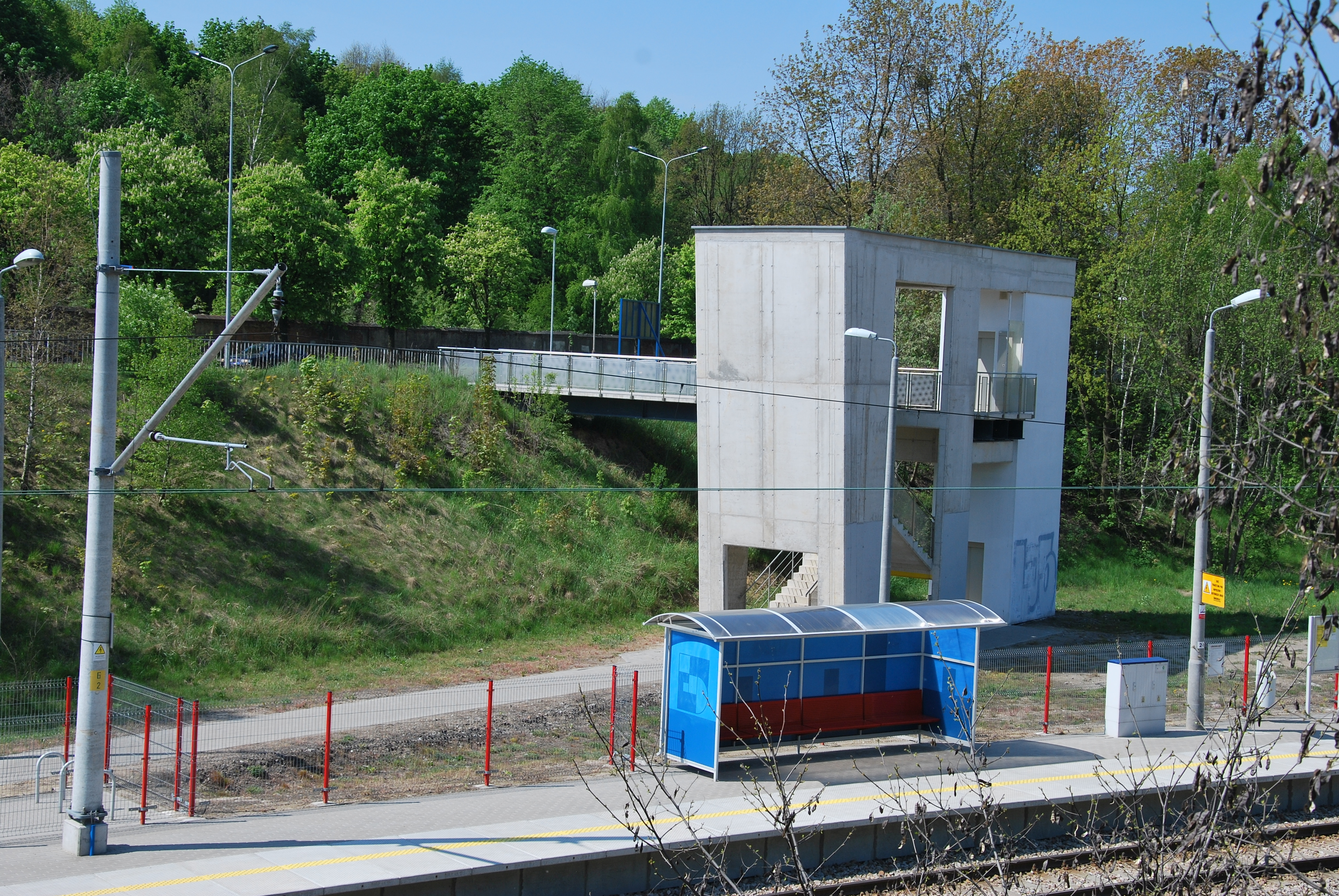 Łódź Marysin train station